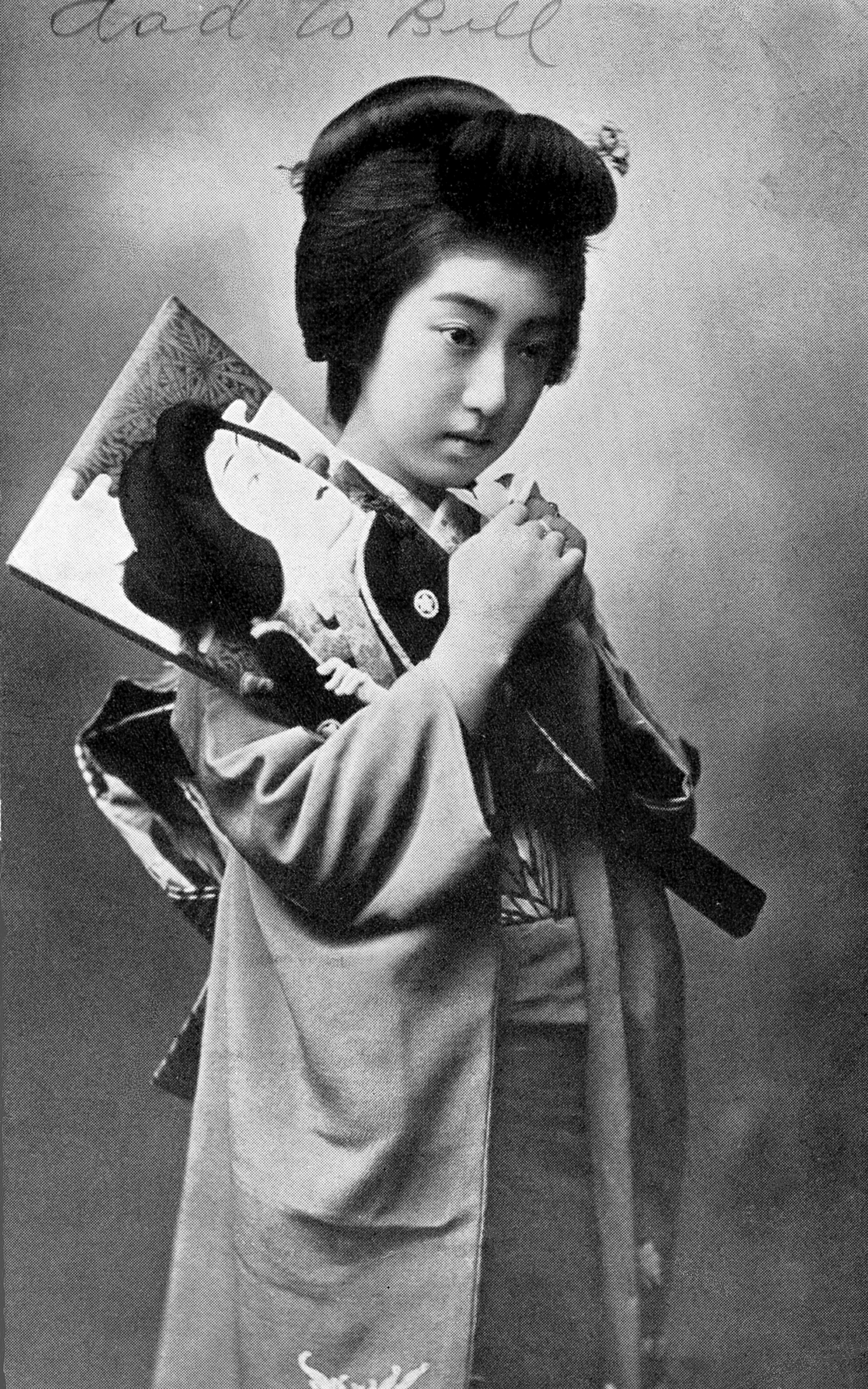 Osaka geisha Teruha holding a hagoita. Postcard made in 1920